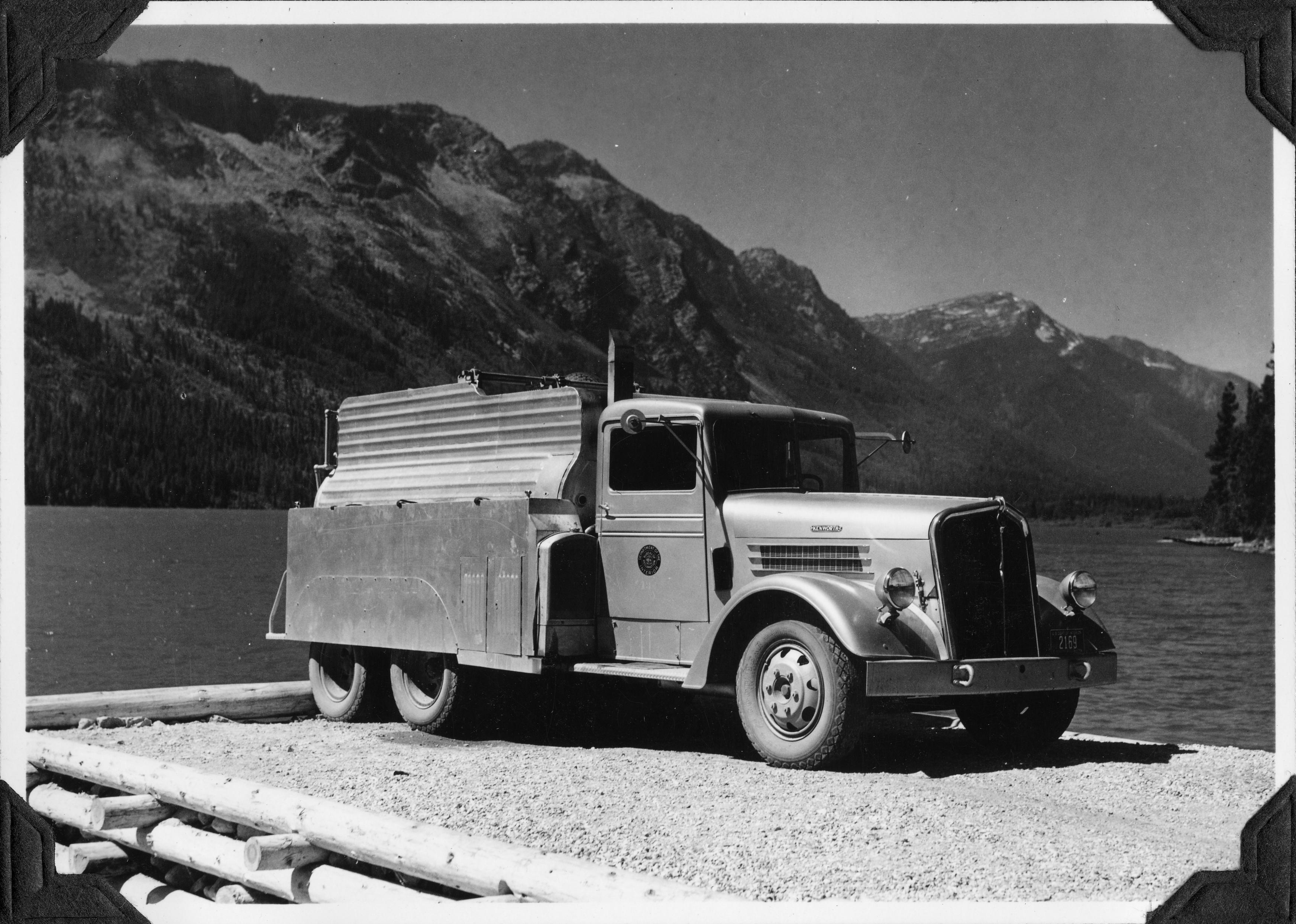 Description/Notes: Fish truck at Lake Wenatchee ready to dump load of blue-back salmon. Original Collection: Pacific Northwest Stream Survey Collection Item Number: Album1 pg.26 Image 2 You can find this image by searching for the item number by clicking here. Want more? You can find more digital resources online. We're happy for you to share this digital image within the spirit of The Commons; however, certain restrictions on high quality reproductions of the original physical version may apply. To read more about what “no known restrictions” means, please visit the Special Collections & Archives website, or contact staff at the OSU Special Collections & Archives Research Center for details.